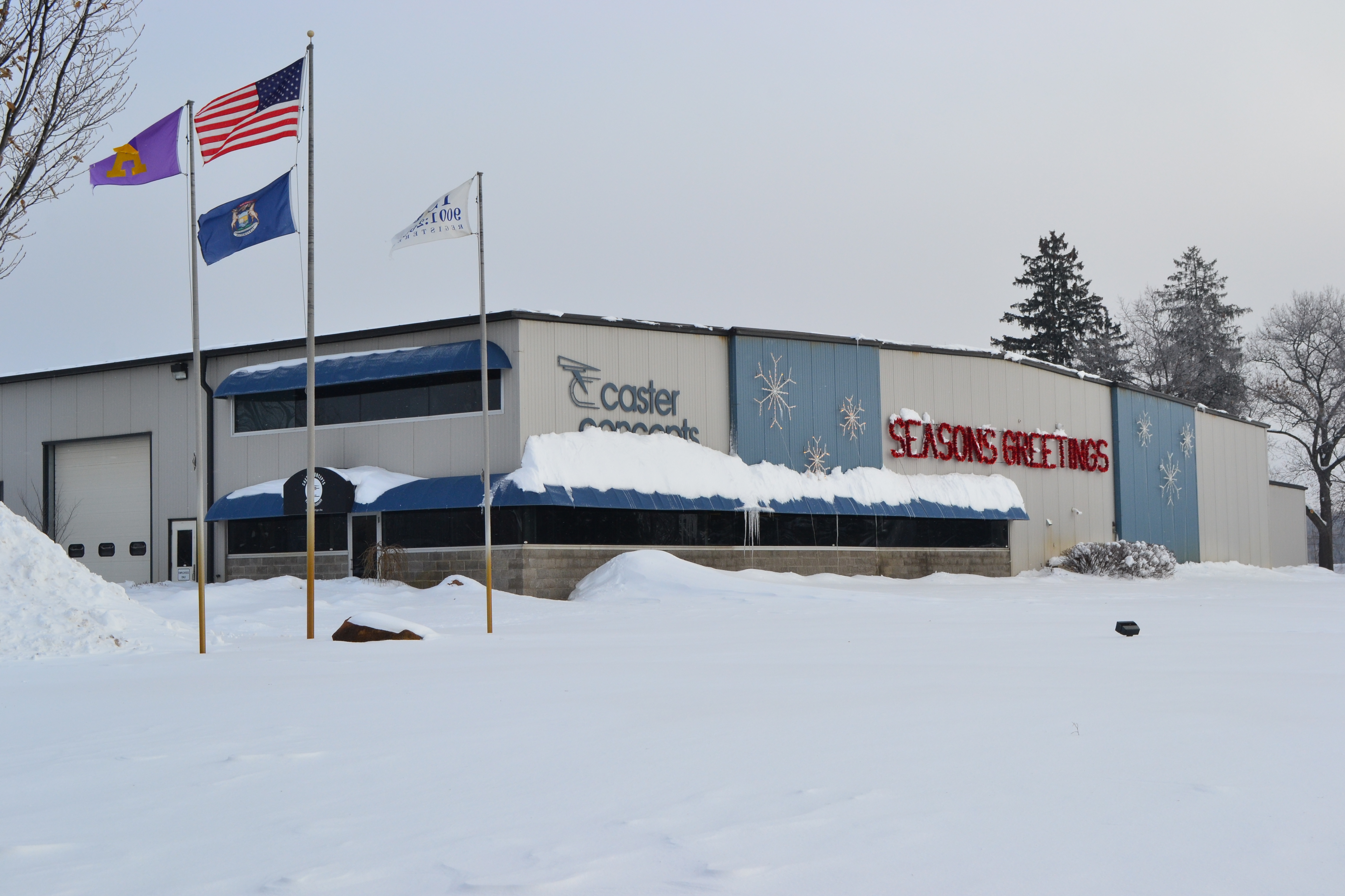 Caster Concepts Manufacturing Facility